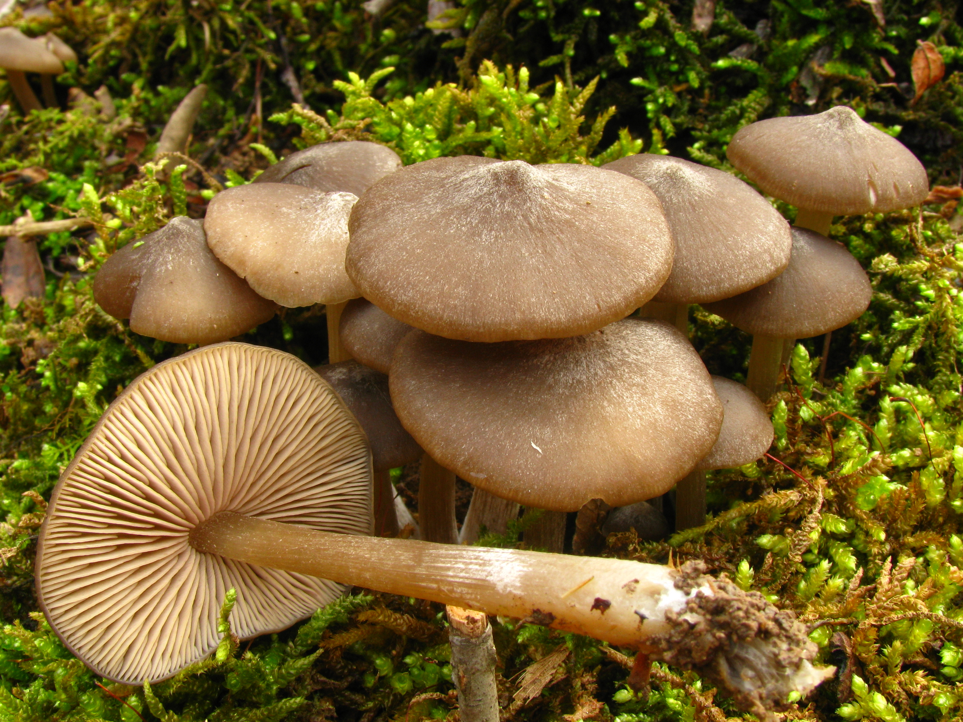 Entoloma vernum S. Lundell Image location: Wayne National Forest, Athens Co., Ohio, USA All of the Wayne National Forest has been logged at least once, and most of it is dotted with oil wells connected by oil well roads. These mushrooms were growing from a moss covered mound of dirt on the side of an oil well road. Recognized by sight For more information about this, see the observation page at Mushroom Observer.